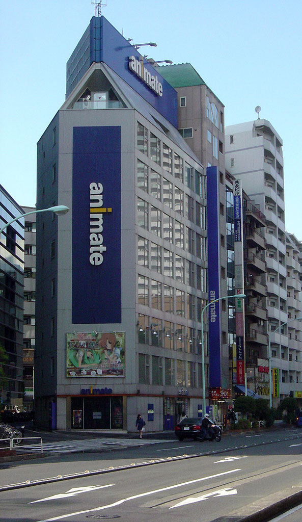 I took this picture on April 24, 2006 in Ikebukuro, Tokyo, Japan. Ikebukuro Animate main store. --Akosygin 15:27, 31 May 2006 (UTC)